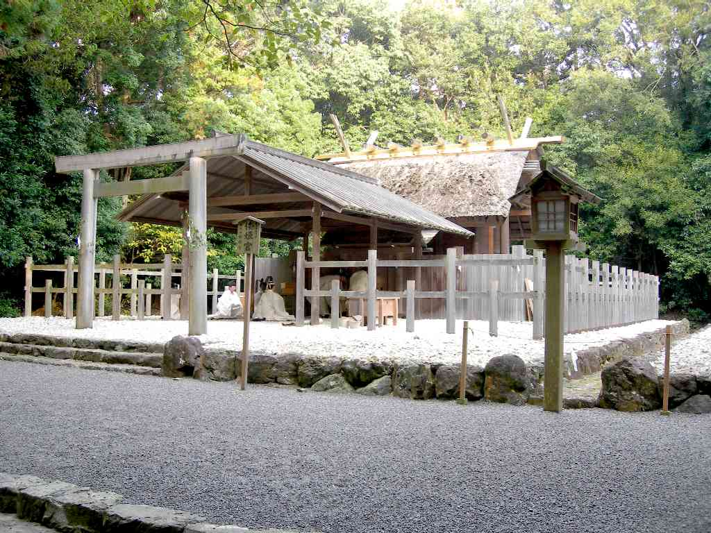 Omike of Niinamesai at the Betsugu Tsukiyomi-no-miya Sanctuary of Kotaijingu(Naiku) in Ise city, Mie prefecture, Japan, November 26th 2006.